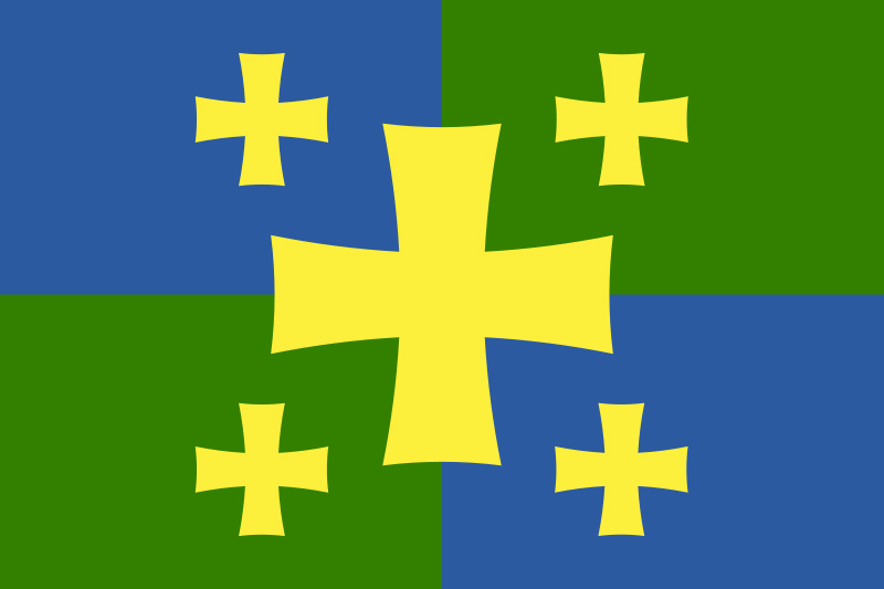 Flag of Kutaisi, Georgia